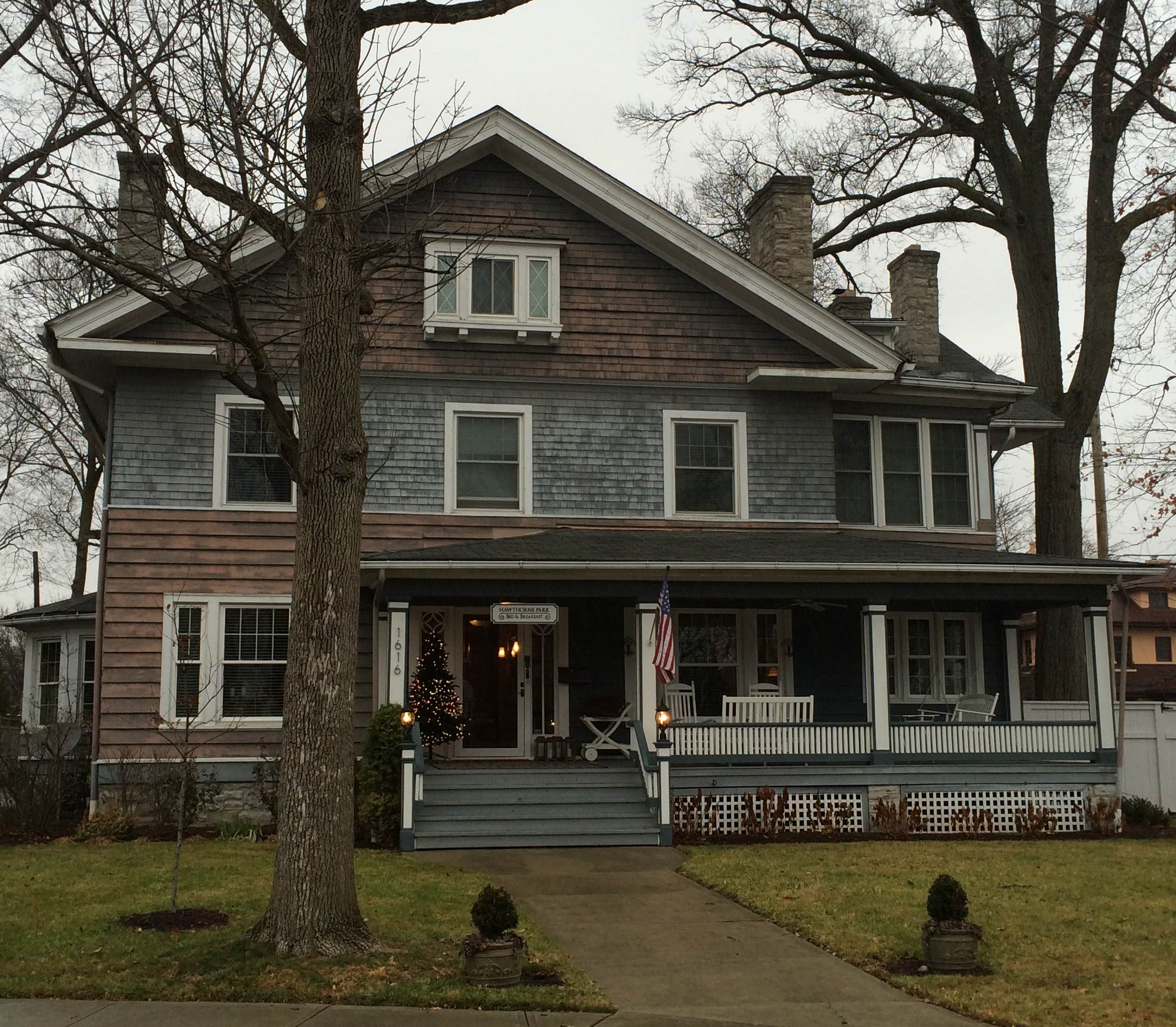 This is a picture of a Woodland Park Bed and Breakfast